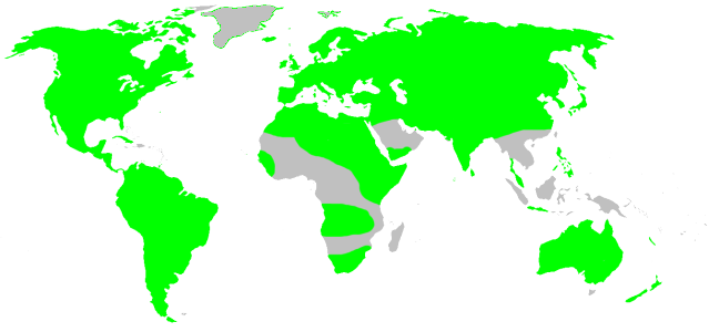 Dictynidae habitat distribution, drawn after Platnick: World Spider Catalog 7.0. This is not at all a precise rendering of the distribution! If you have better information, please replace this map, or send me the info, and i will redraw it.